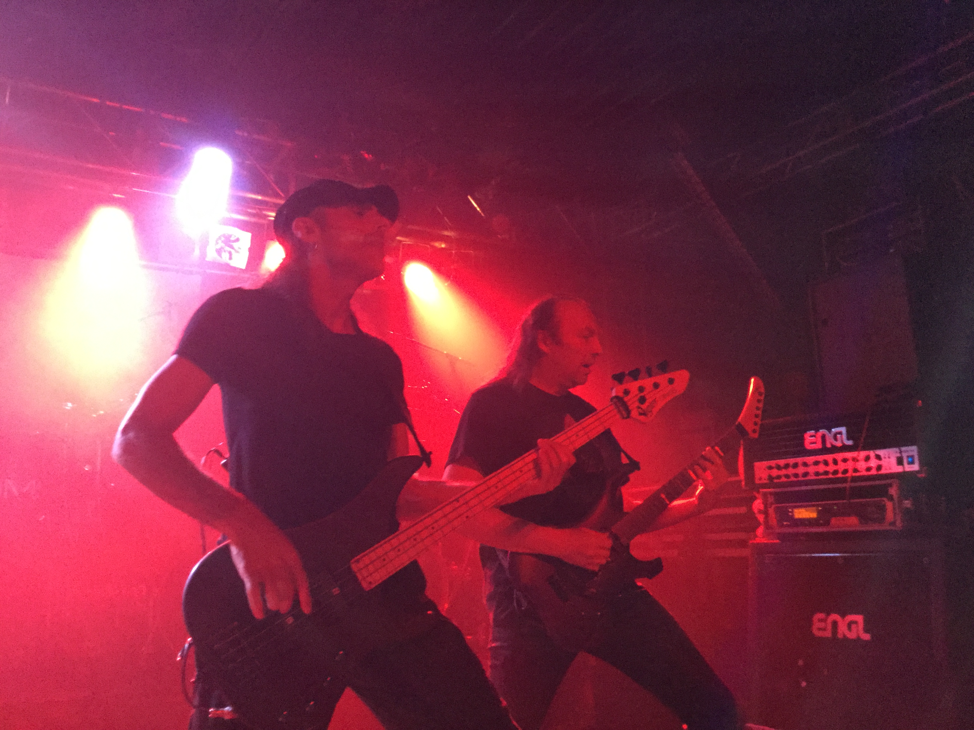 Luca Turilli's Rhapsody live in Munich (2016): Patrice Guers and Dominique Leurquin